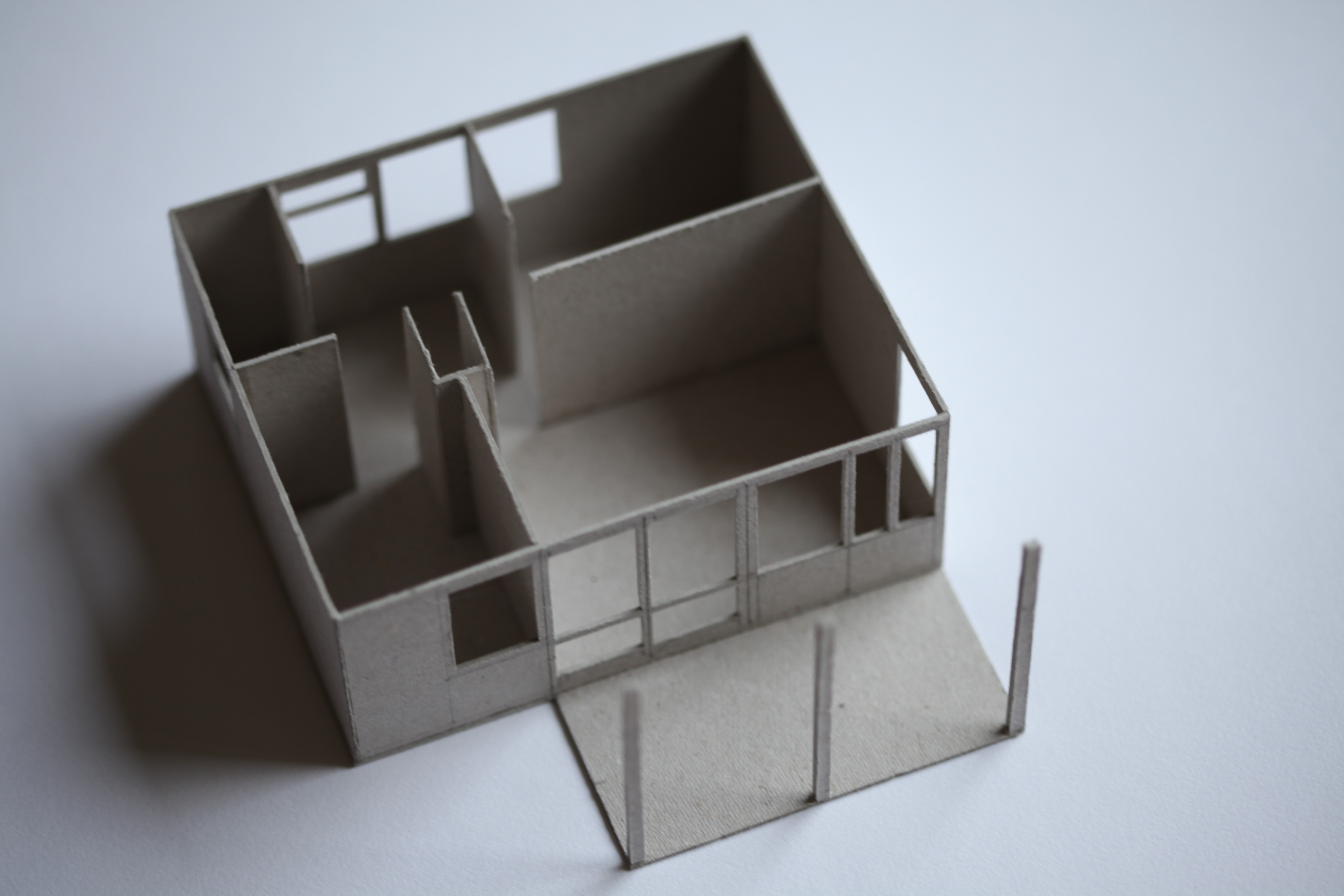 Maquette (1:100) of a vacation house designed in 1951 by the dutch architect and interior designer Gerrit Rietveld